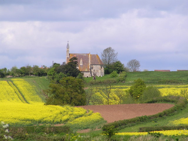 Weethley Church. Standing on the top of the Ridgeway this little church can be seen from some distance away.